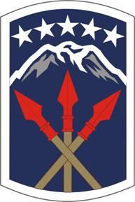 593d Expeditionary Sustainment Command (ESC) shoulder sleeve insignia from